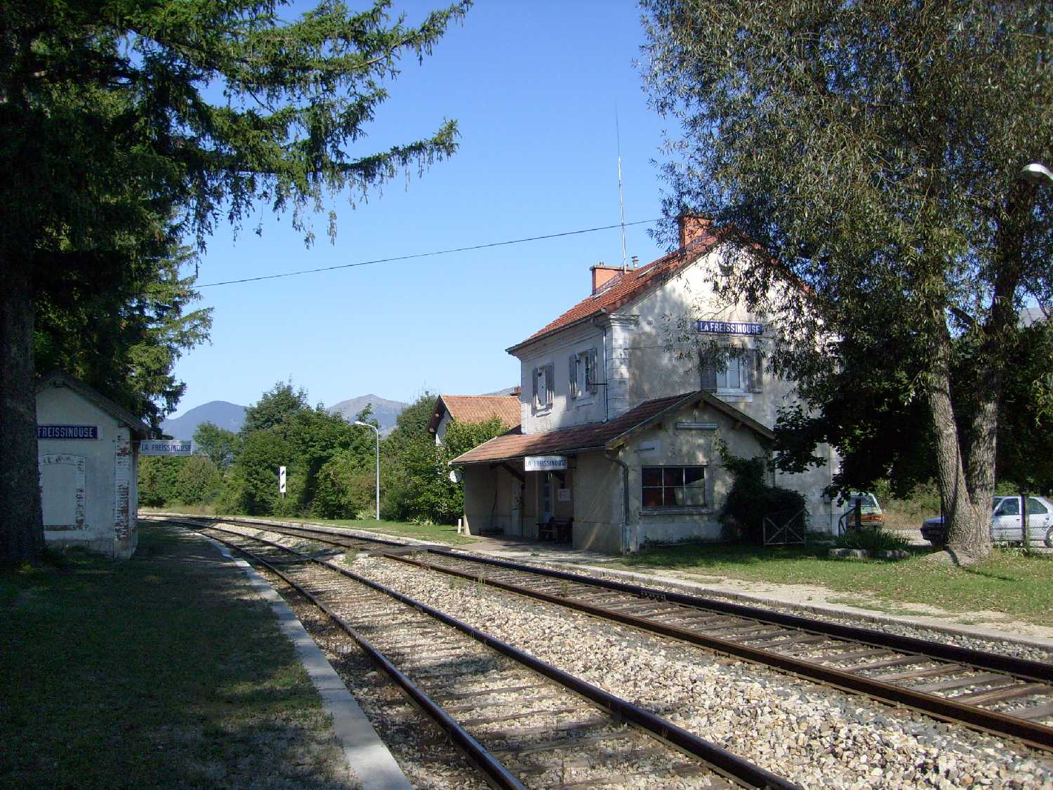 La Freissinouse railway station; railway between Veynes and Briançon( Hautes-Alpes, France)